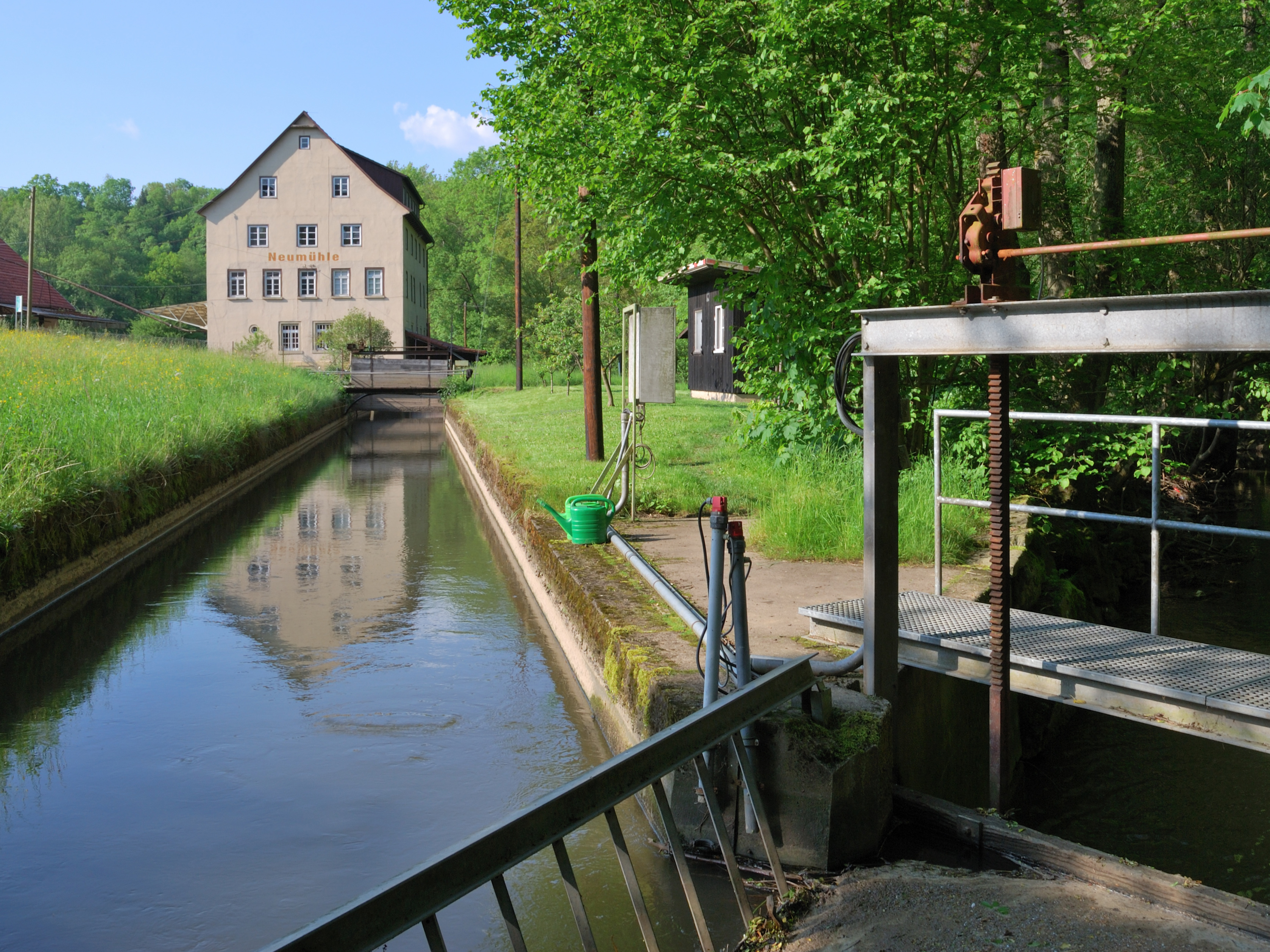 Neumühle, a flour mill on the river Glems in Schwieberdingen in Southern Germany.